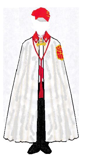 Mantle of the Order of Mercy. Order of the Blessed Virgin Mary of Mercy